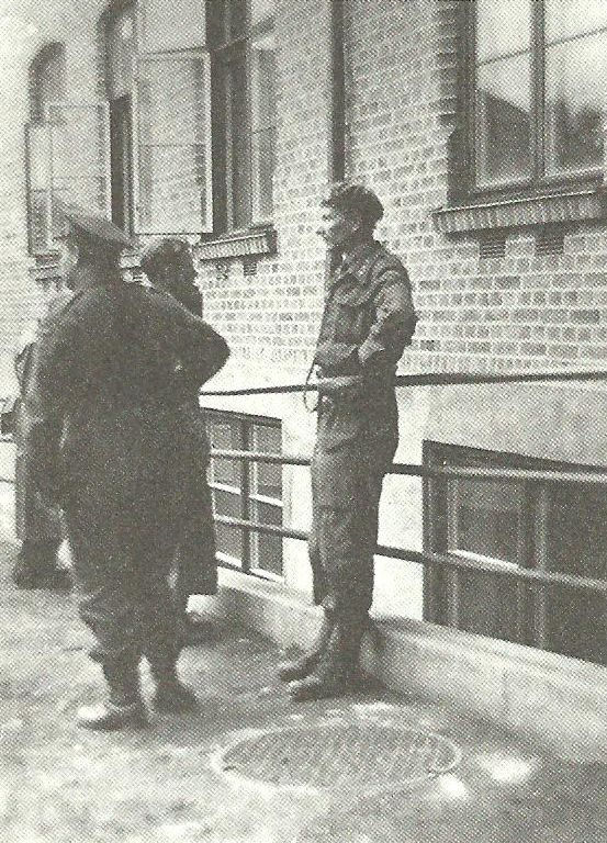 Photo of Norwegian and British military personell at Lillehammer June 26, 1945, by Erik Myhre (1900-1983), printed in the book Fra varm til kald krig, by Tore Pryser. The man to the right is the Norwegian Kristian Gleditsch, the man left of him with his back turned against the photographer is British Major W. D. MacRoberts.